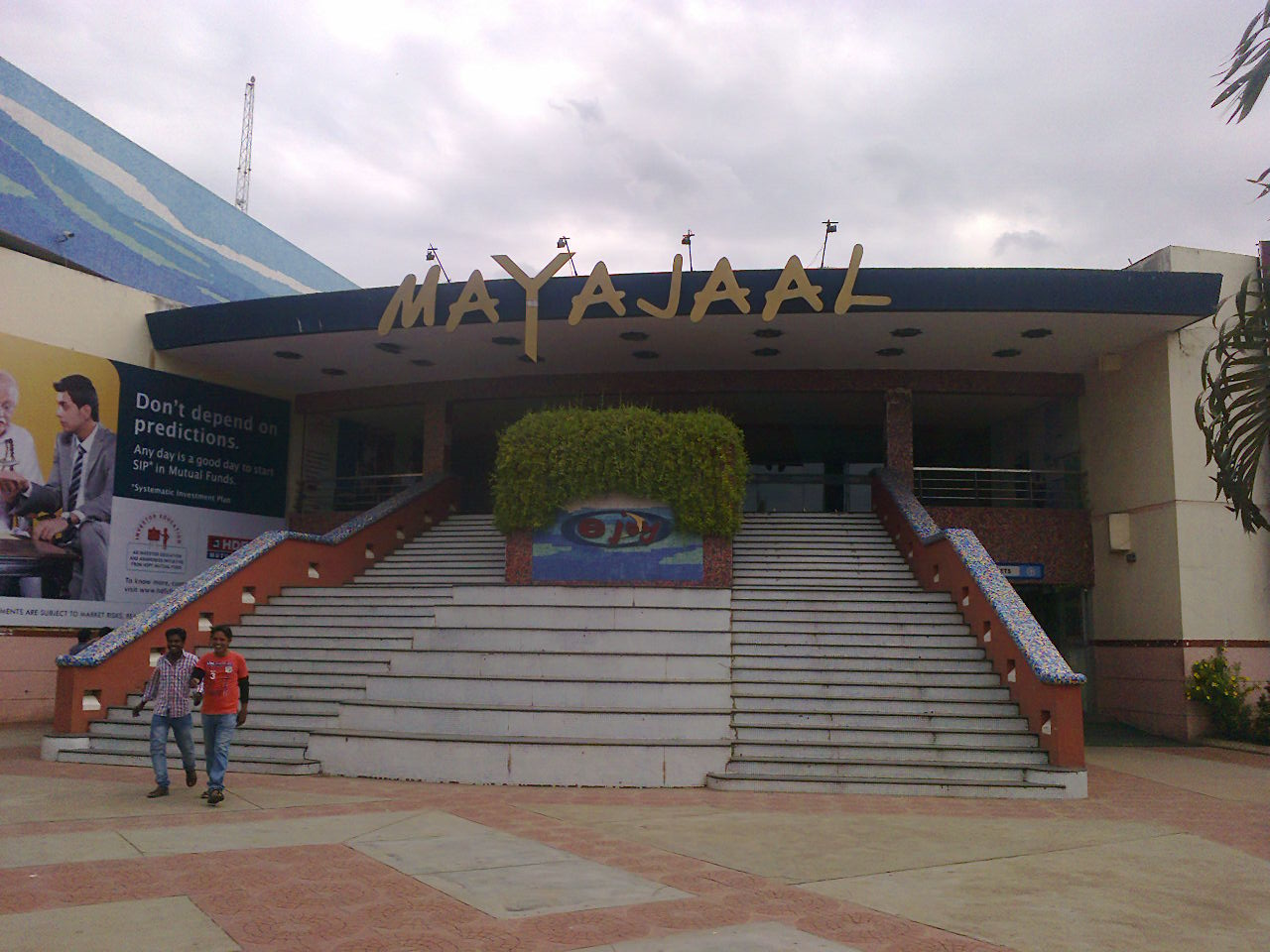 Mayajaal